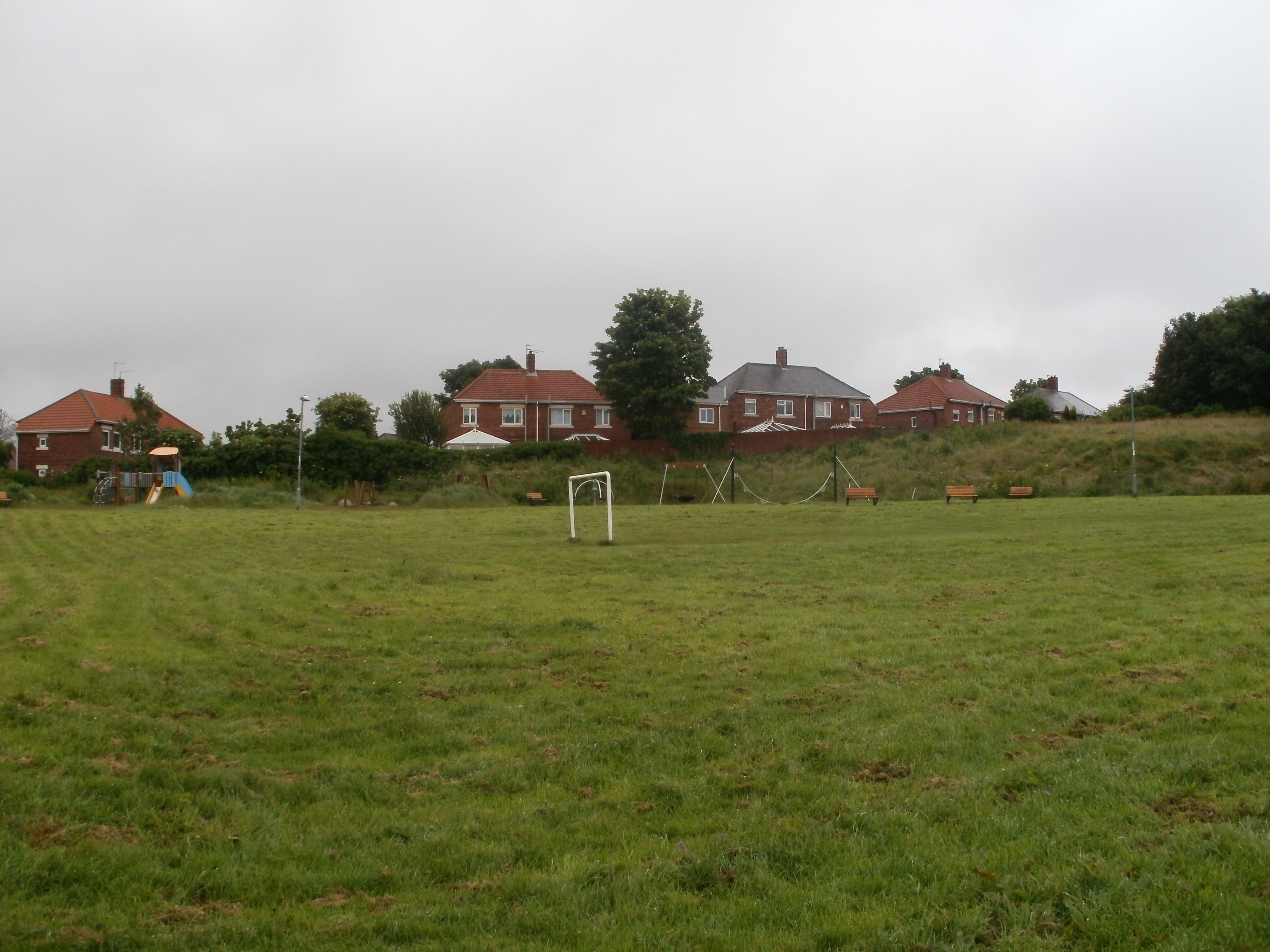 View of Carr Hill Park, Gateshead, from the western corner at Carr Hill Road